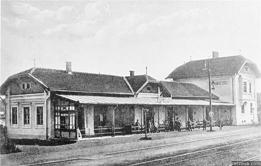 Truskavec. Old Railway Station. 1912 year.